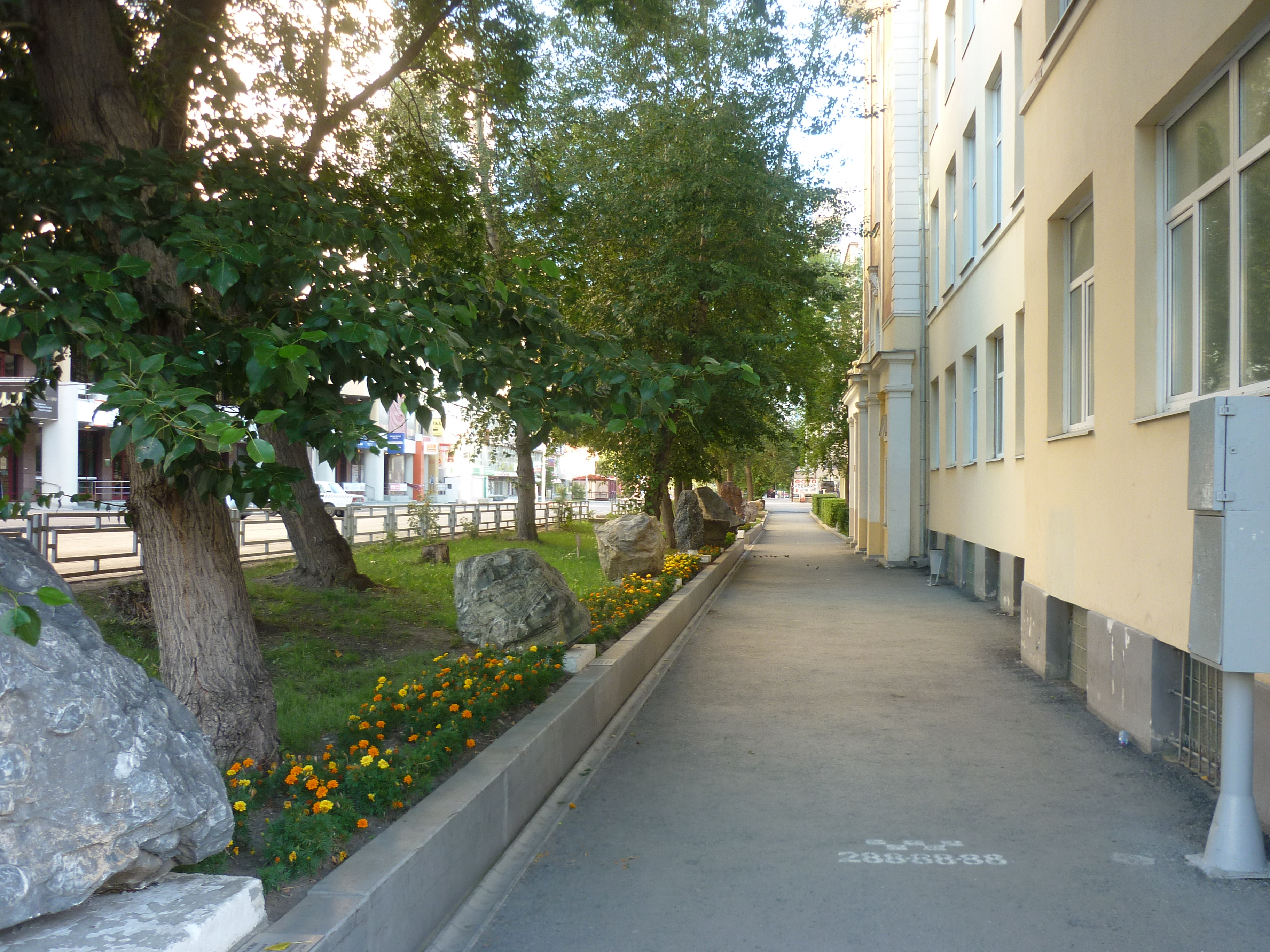 Учебный корпус 3 УГГУ Хохрякова 85 Екатеринбург Вид на север по правой стороне улицы